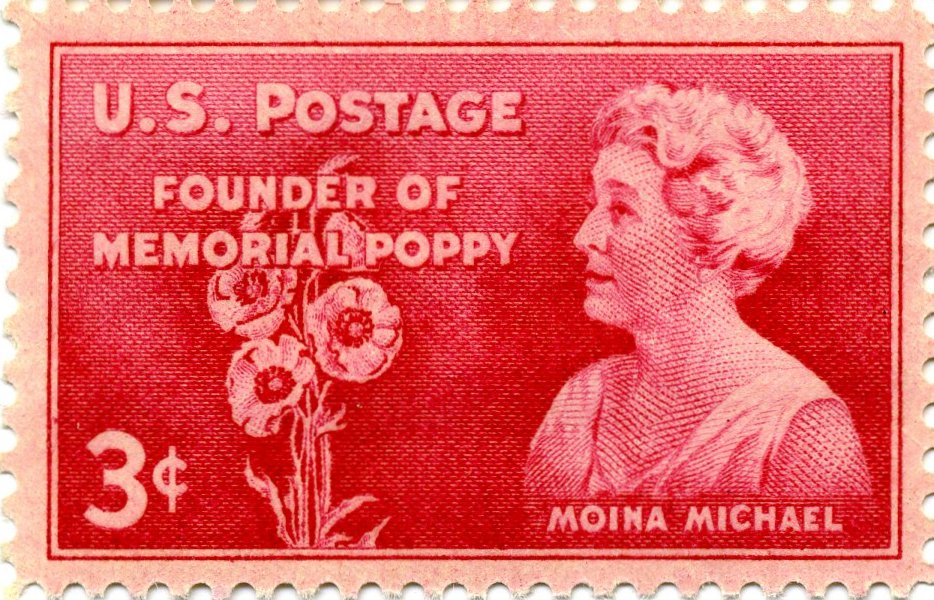 Moina Michael, promoter of Poppy Day observance, commemorated in US postage stamp of 1948.